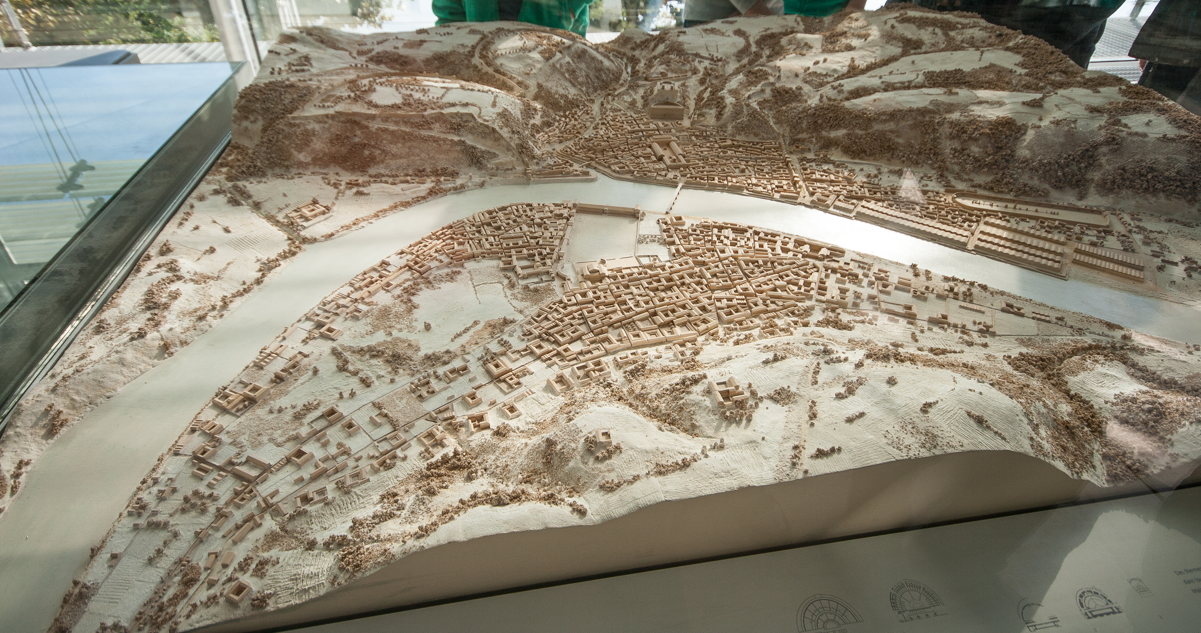 Model of the archaeological site of Vienna (Isère departement) / Saint-Romain-en-Gal (Rhone departement) at the time of Allobroges. The north is on the left. The river Rhone flows north / south (from left to right). Saint-Romain-en-Gal is on the right bank of the Rhone river (west side), at the forefront in the picture. Vienna is on the left bank of the Rhone river (east side), on the farside in the picture.